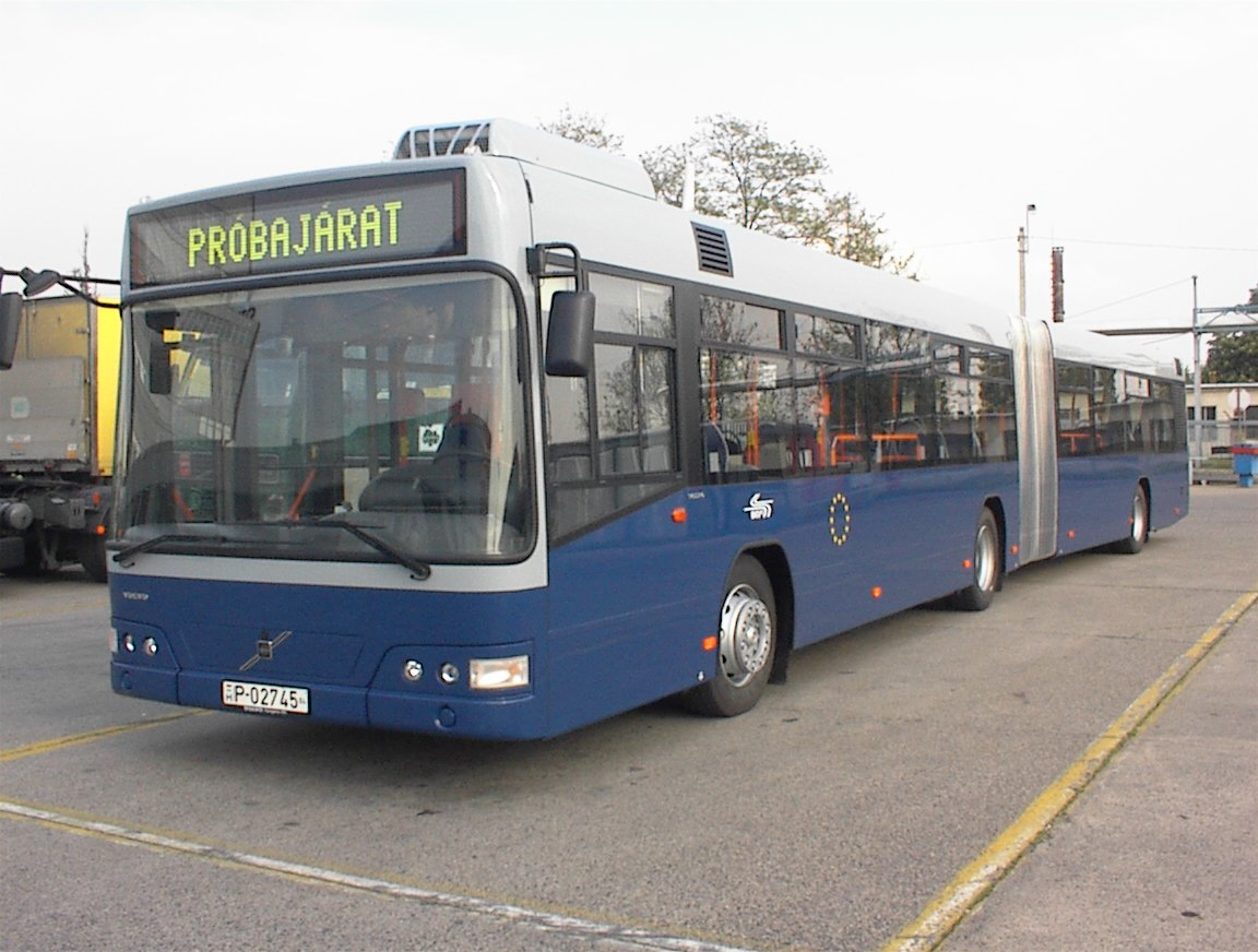 Volvo 7000A type bus in Budapest